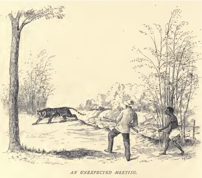 Douglas Hamilton, Unexpected meeting with Tiger